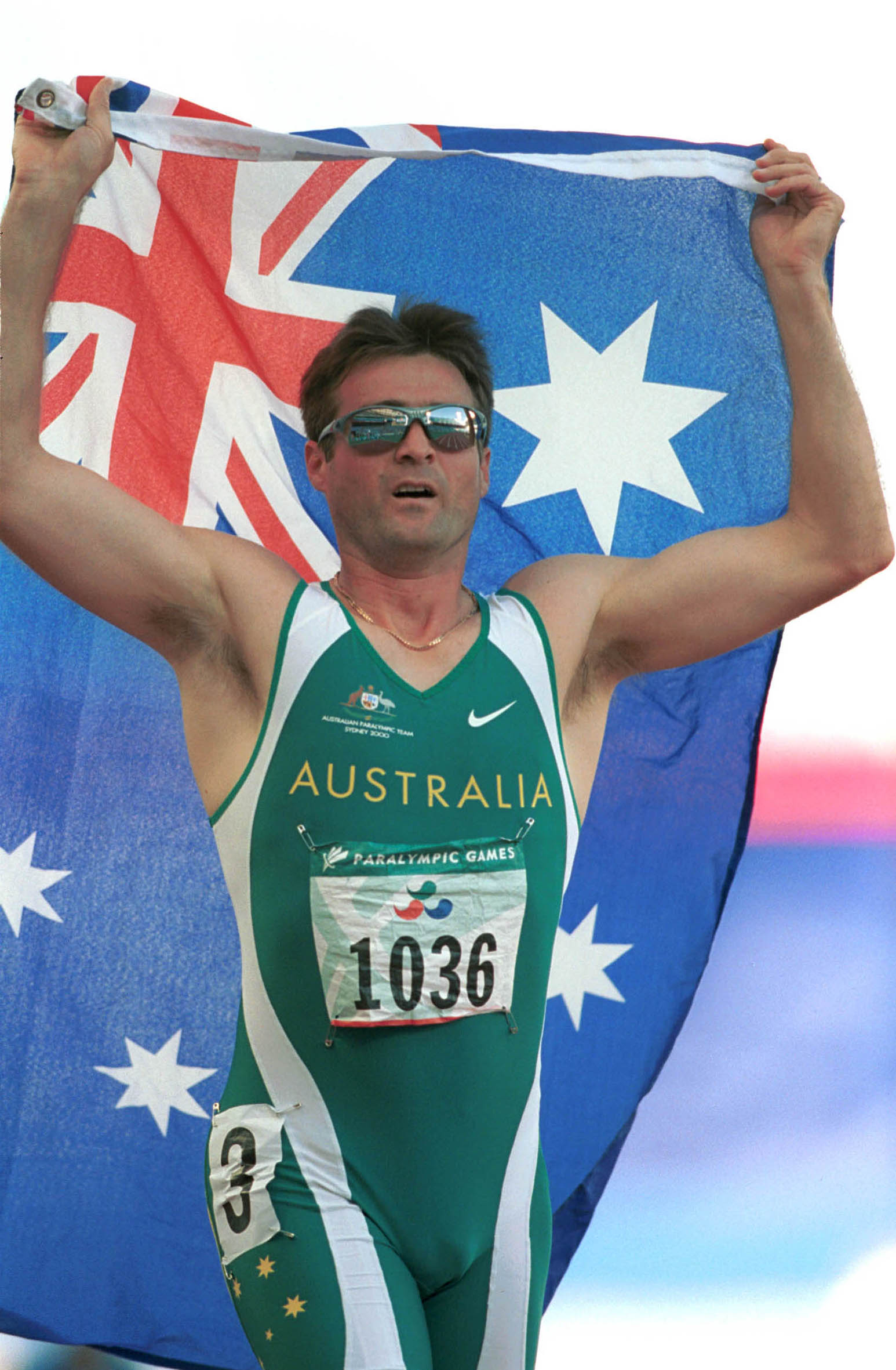 Australian track athlete Neil Fuller at the 2000 Sydney Paralympic Games, carrying the Australian flag